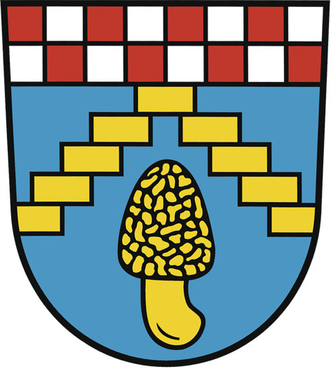 Coat of arms of Schmergow, Part of Groß Kreutz